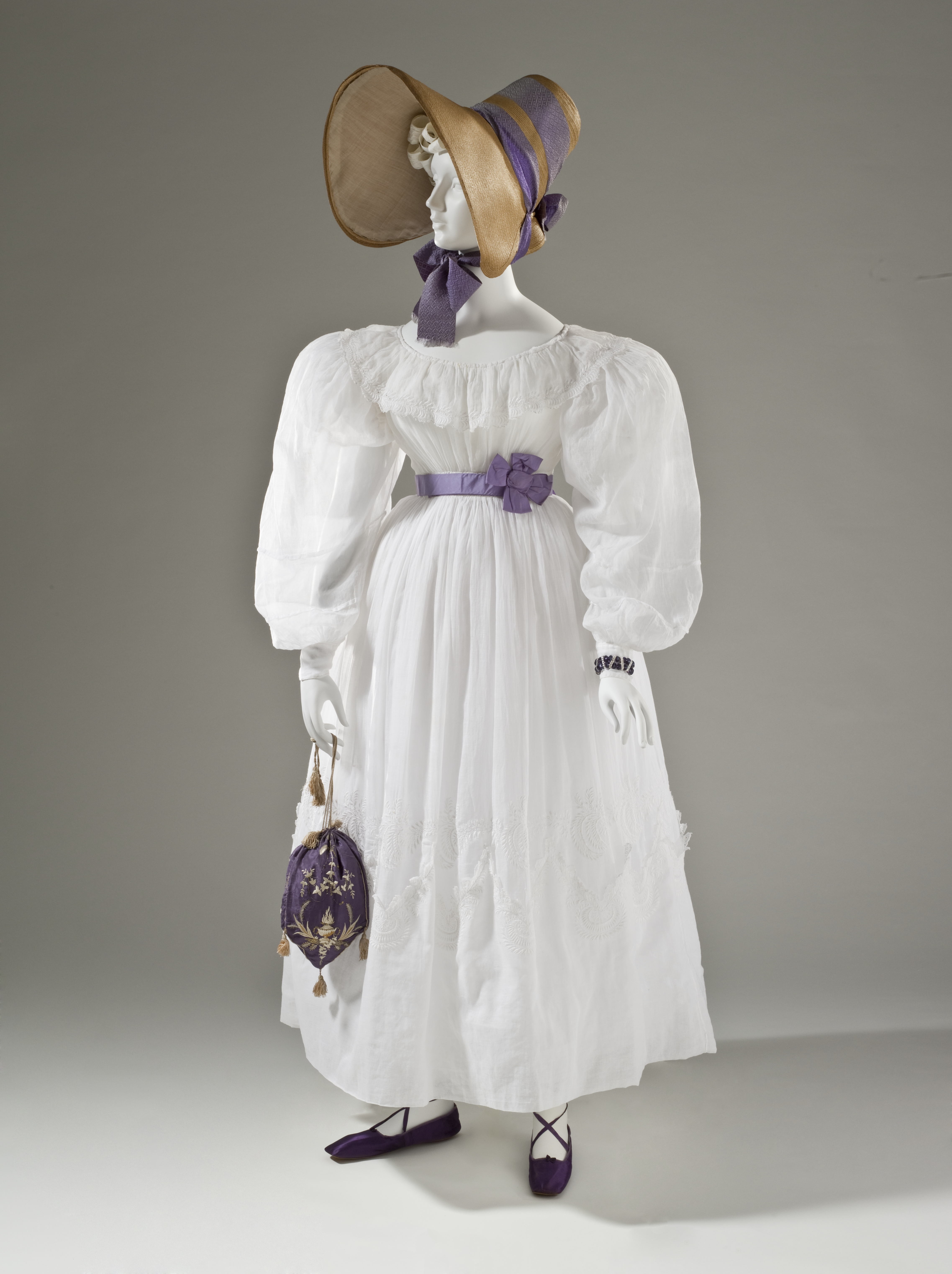 Woman's dress, Europe, white cotton plain weave (muslin) with cutwork and cotton embroidery, c. 1830 Bonnet, Europe, straw with silk-ribbon trim, c. 1830 Bag (reticule), France, 1800-1825, silk plain weave with sequins and silk embroidery Pair of shoes, France, 1830-1840, silk satin and leather